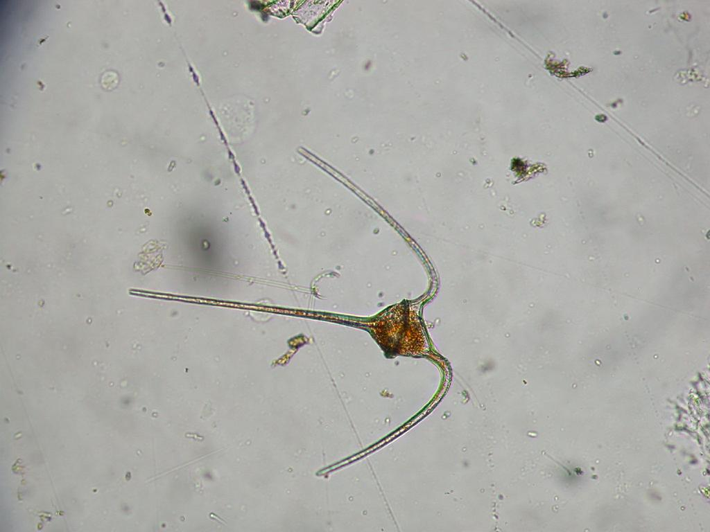 Ceratium sp. (Dinophyta) from Hikigawa town, Wakayama Pref., Japan.